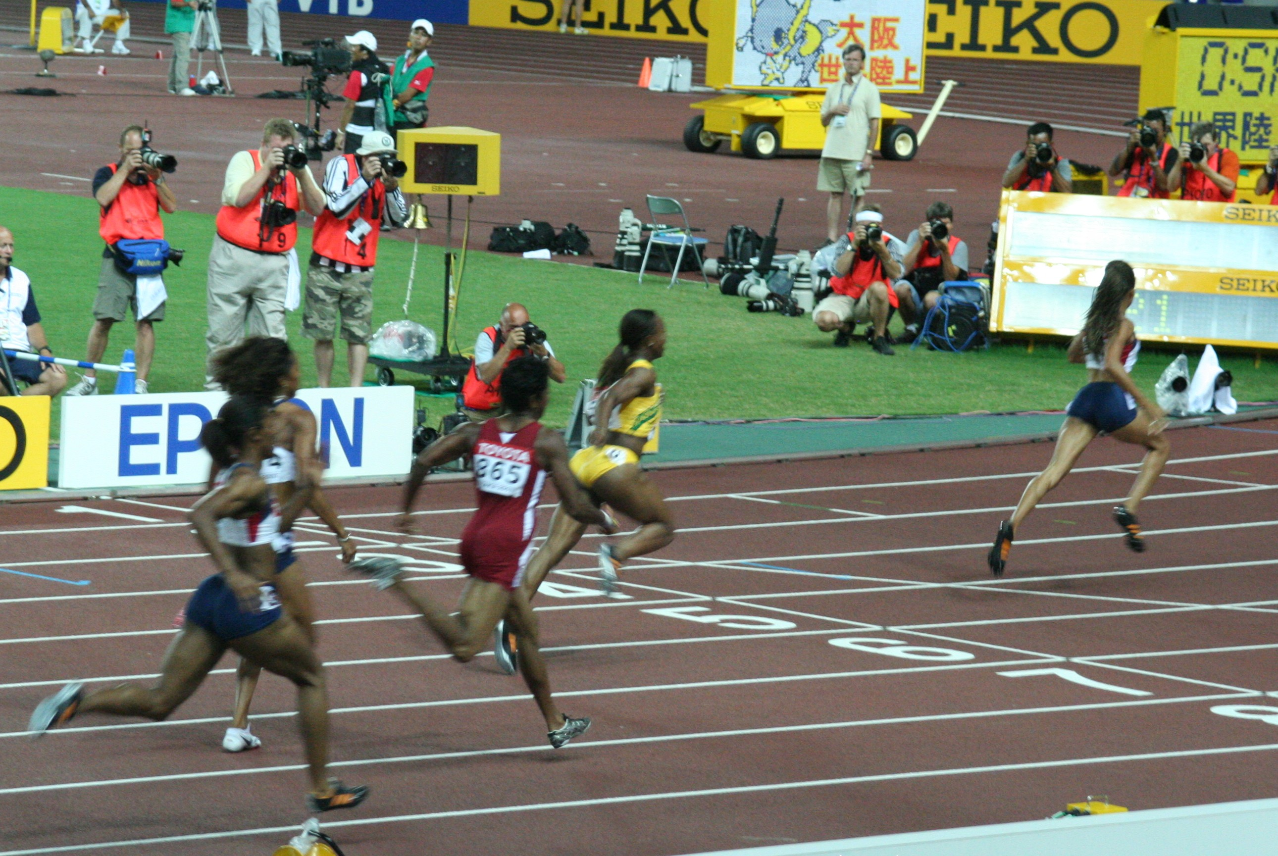 World Athletics Championships 2007 in Osaka - At the finishing line of the women*s 200 metres race. Allyson Felix distances her competitors